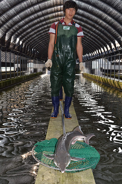 About 50,000 sturgeon are swimming in captivity at South Korea's first and only surviving caviar farm. (VOA - S. Herman)